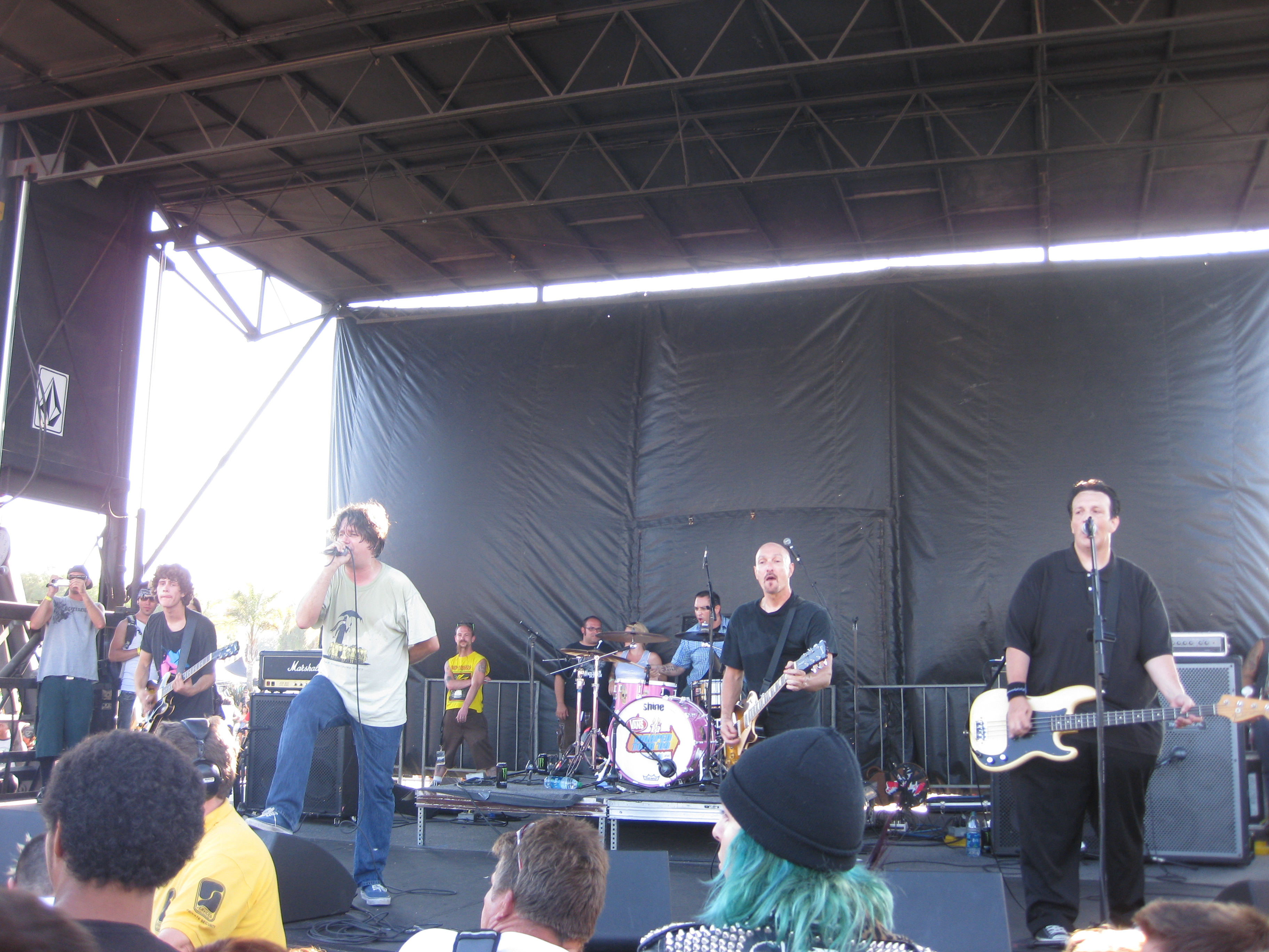 The Adolescents performing on the Warped Tour at the Cricket Wireless Amphitheatre in Chula Vista, California on August 10, 2010. Left to right: Joe Harrison, Tony Cadena, Mando Del Rio, Mike McKnight, and Steve Soto.